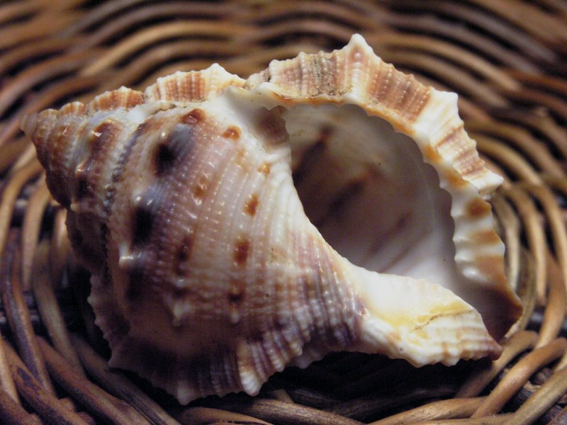 A shell of Bufonaria rana. Locality: Throughout the Philippines.